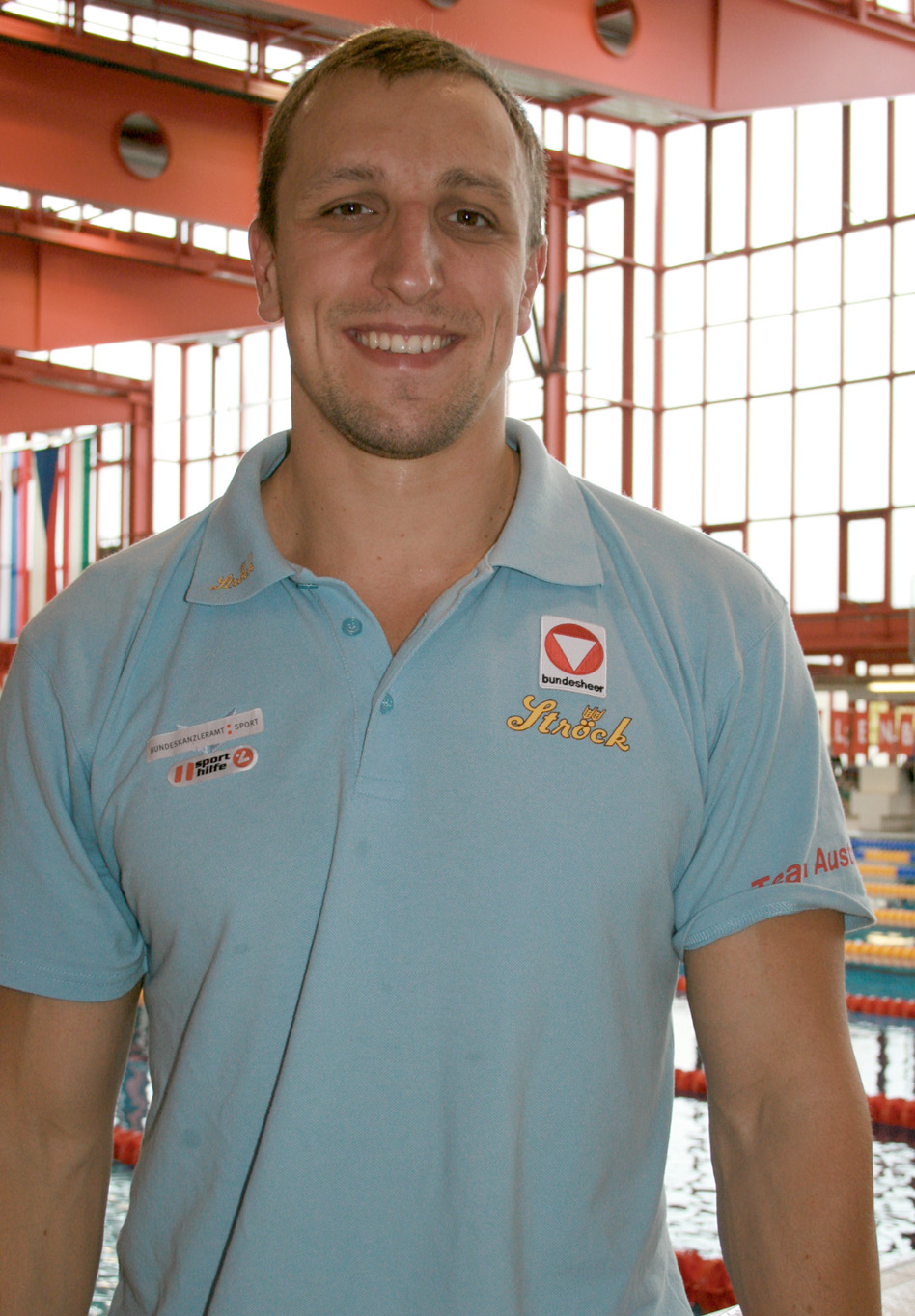 Austrian swimmer Maxim Podoprigora at the 7th International Viennese Swimming-Championships at the Wiener Stadthalle.